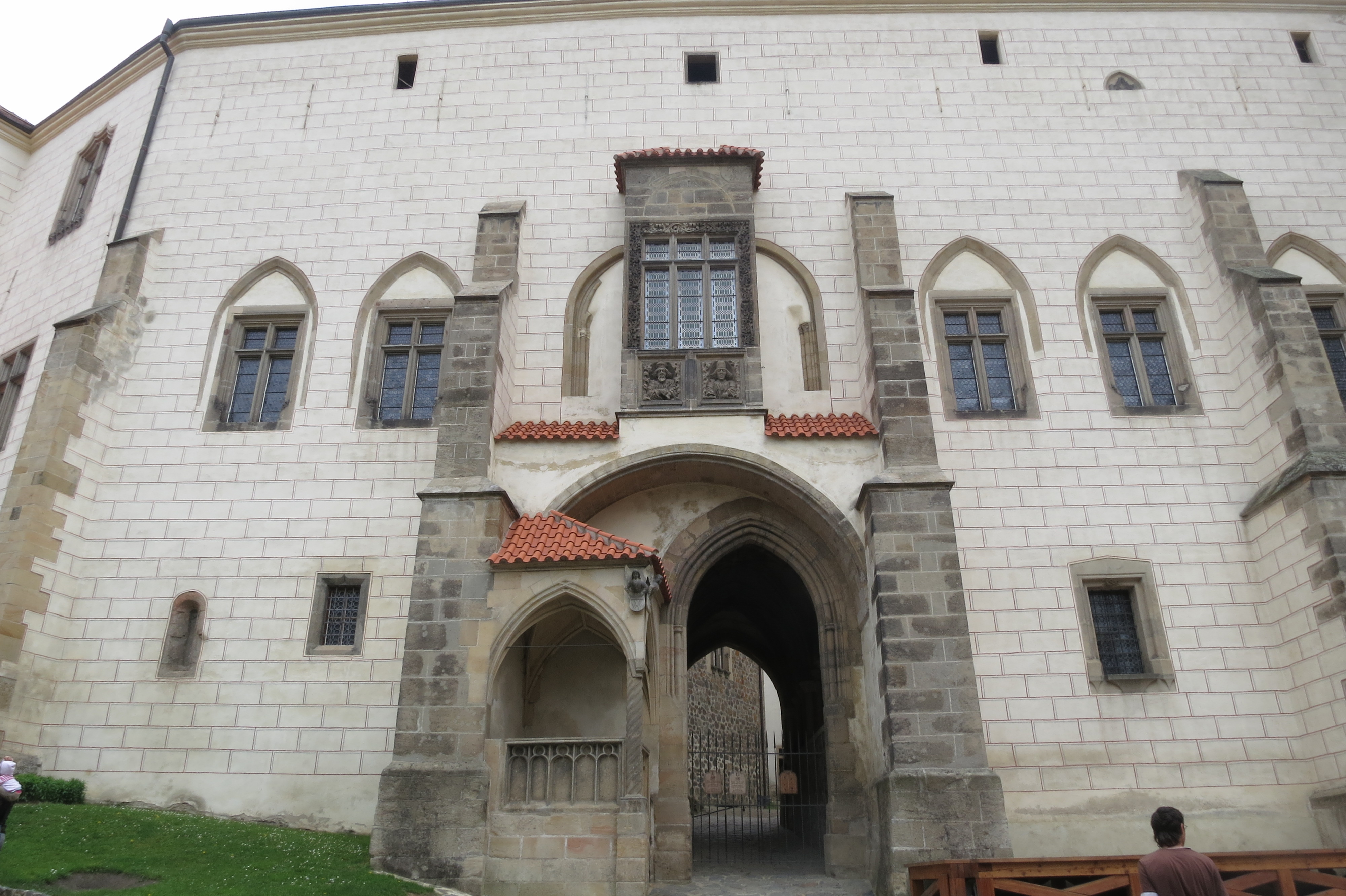 Gate of Křivoklát castle, Rakovník District.